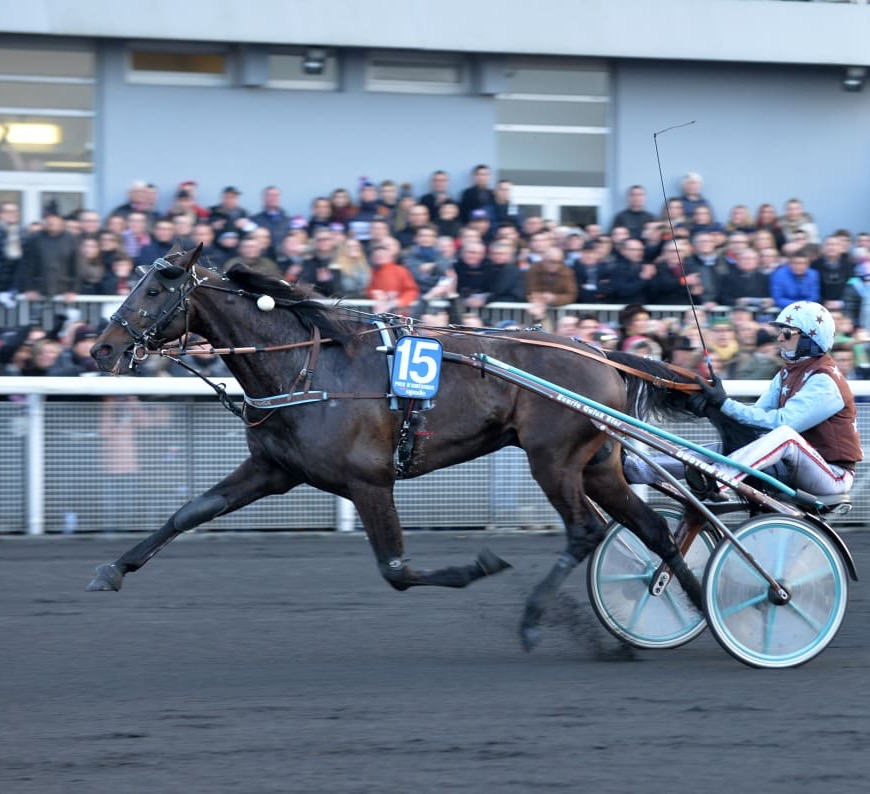 Up And Quick wins Prix d'Amerique 2015, Vincennes.